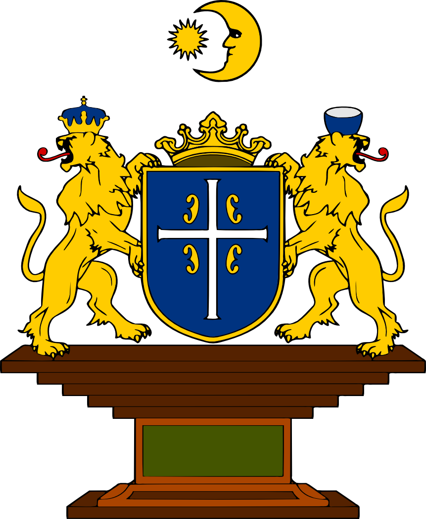 Coat of Arms of Jovan Obrenovic, the brother of Prince Miloš. From the facade of his home in Čačak.